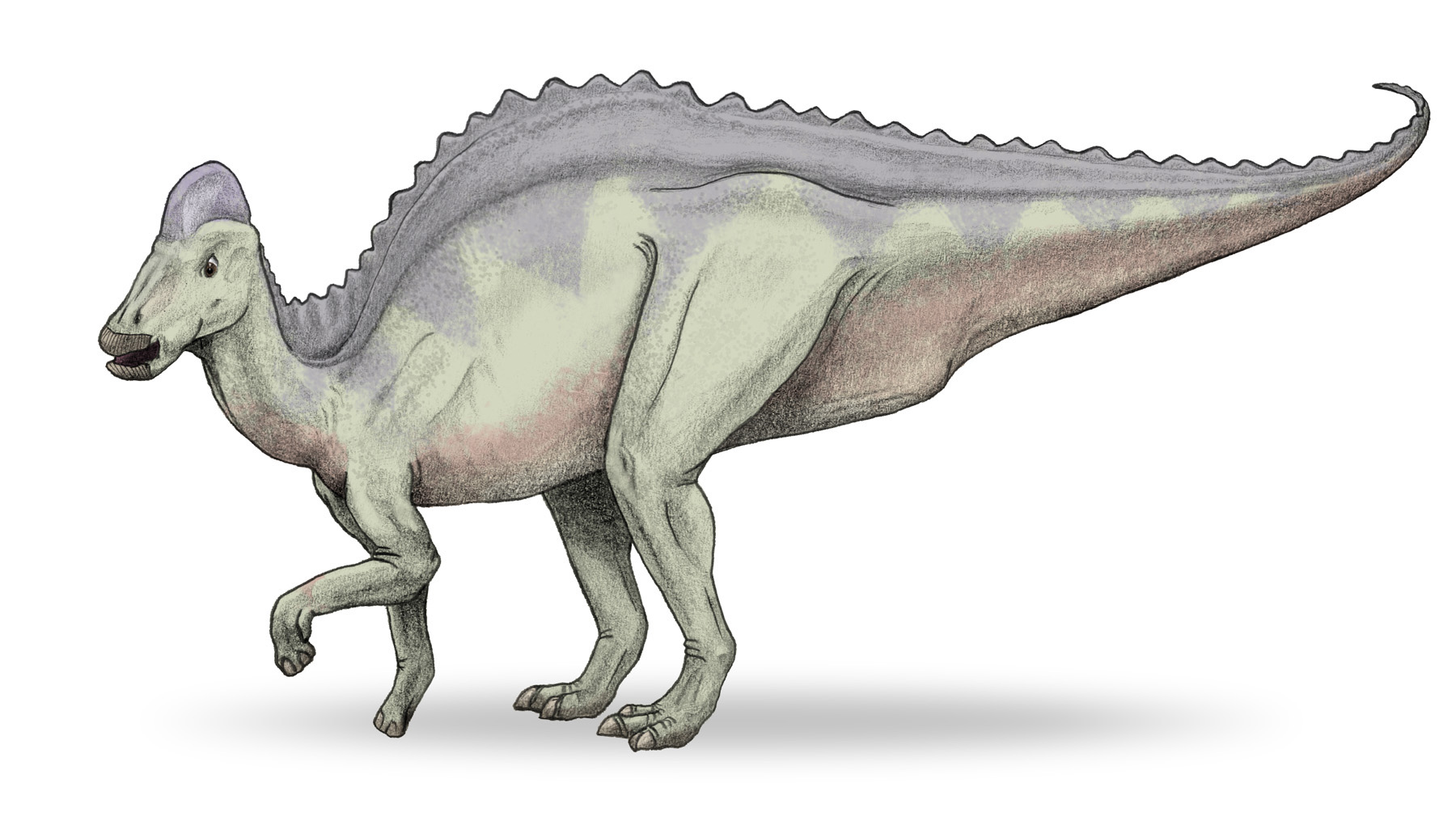 Hypacrosaurus altispinus drawing by me user debivort june 07 Category:Approved dinosaur images